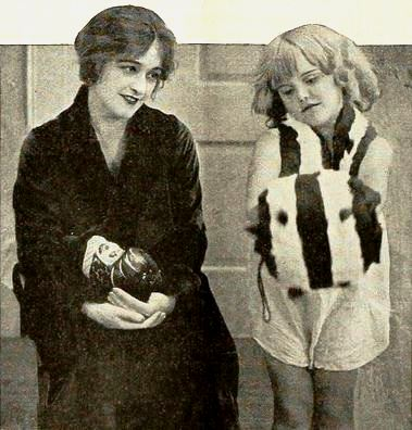 Still with American actress Gladys Brockwell and five-year old Nancy Caswell, cropped at top for publication, on page 10 of the June 1919 Film Fun.